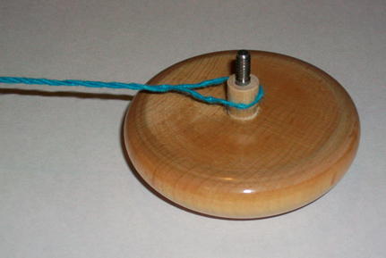 yo-yo toy cutaway image, shows the split string that allows a yo-yo to sleep, why a yo-yo sleeps, fixed axle yoyo toy